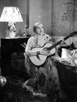 1933 film "Szpieg w masce": Hanka Ordonówna playing the guitar (in the film as singer and intelligence agent).